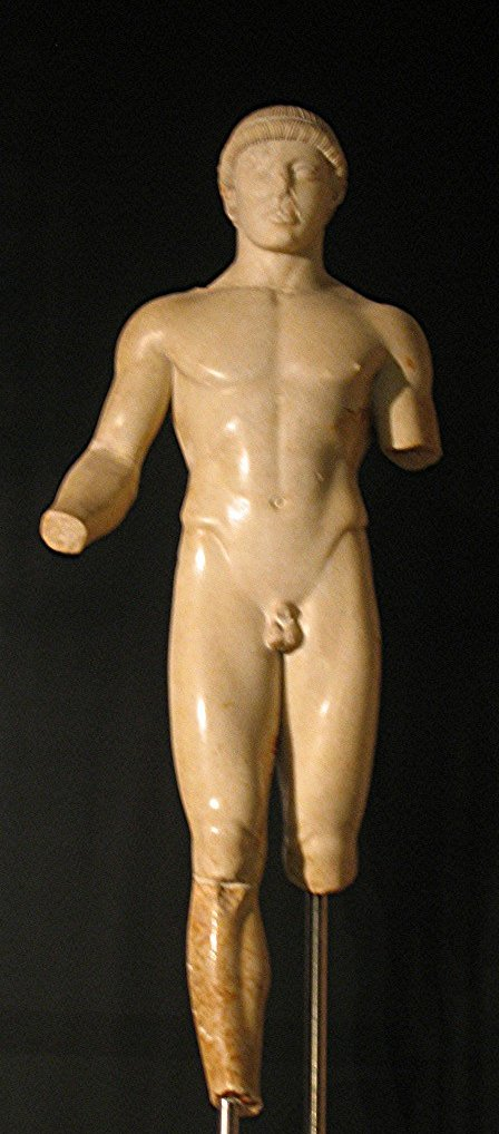 Ephebe, 5th century B.C., museum of Agrigento, Sicilia.